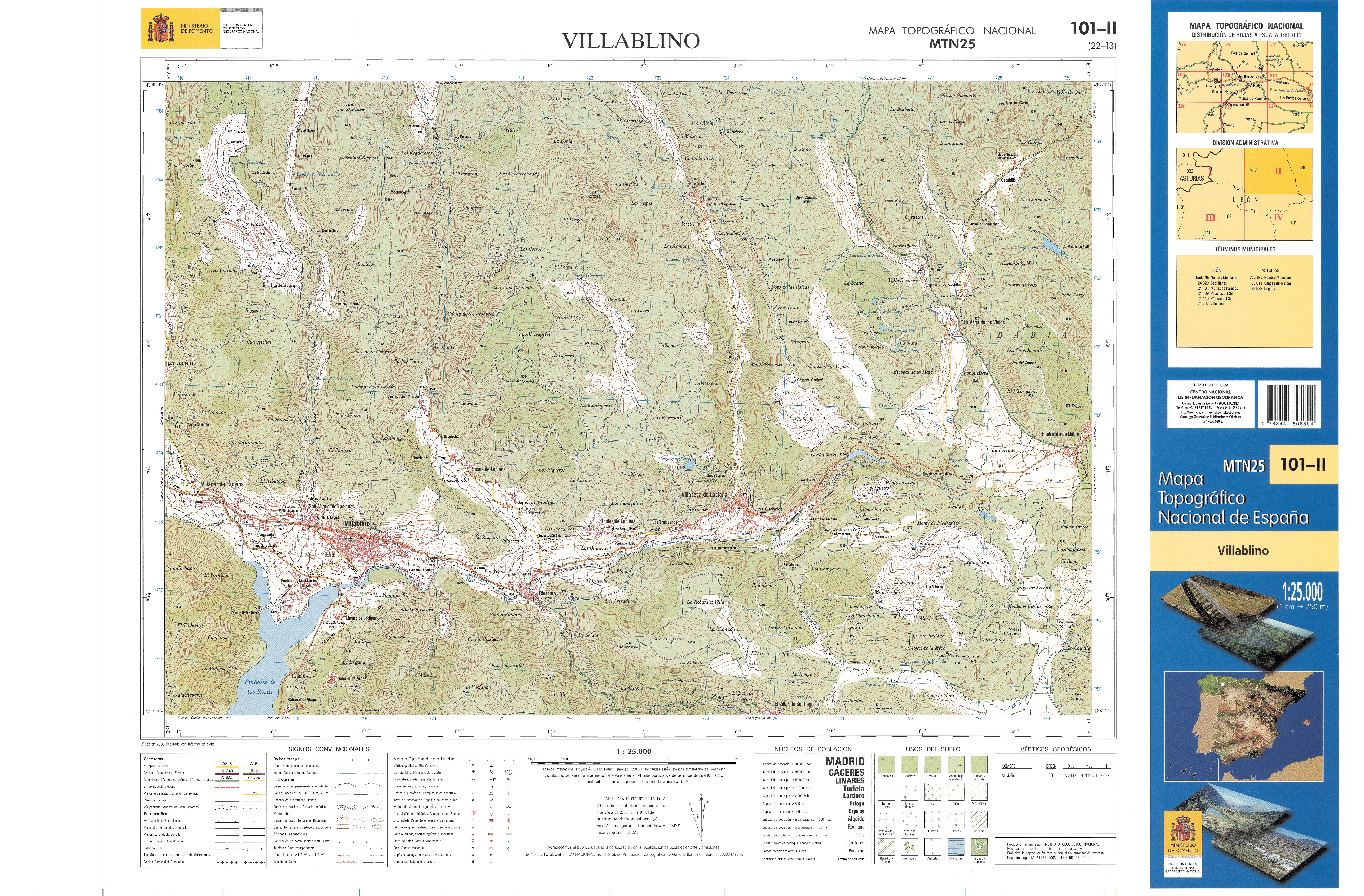 Fragment 0101c2 of the National Topographic Map of Spain in 2008 at a scale of 1:25000 printed and scanned with a resolution of 250 ppi. It shows Villablino.